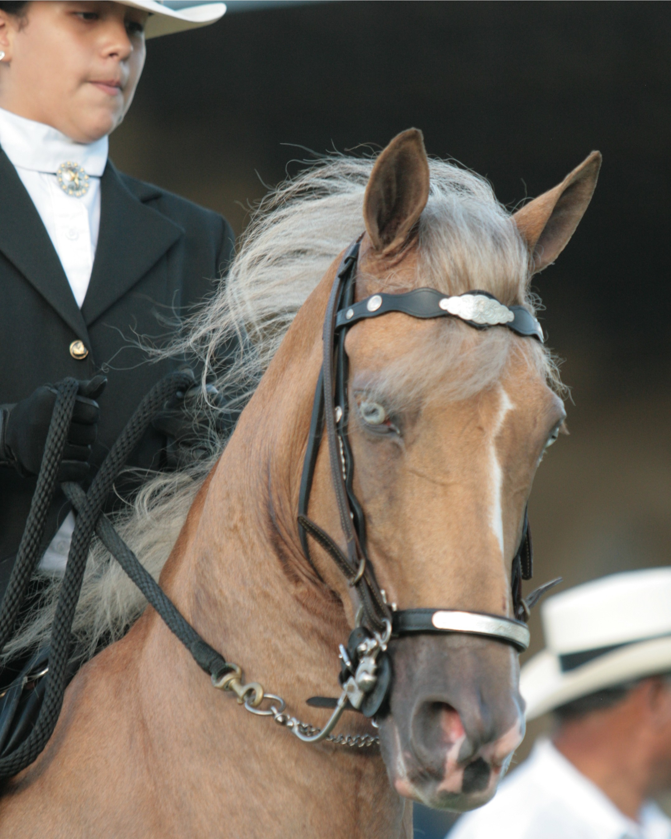 An odd colored Paso Fino Mare and Amazona in Equitation